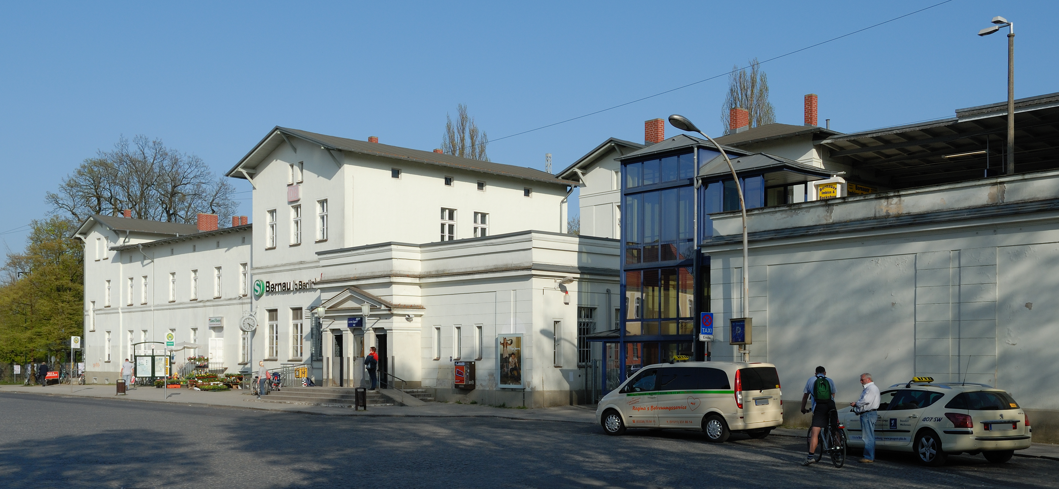 Railway station in Bernau near Berlin.